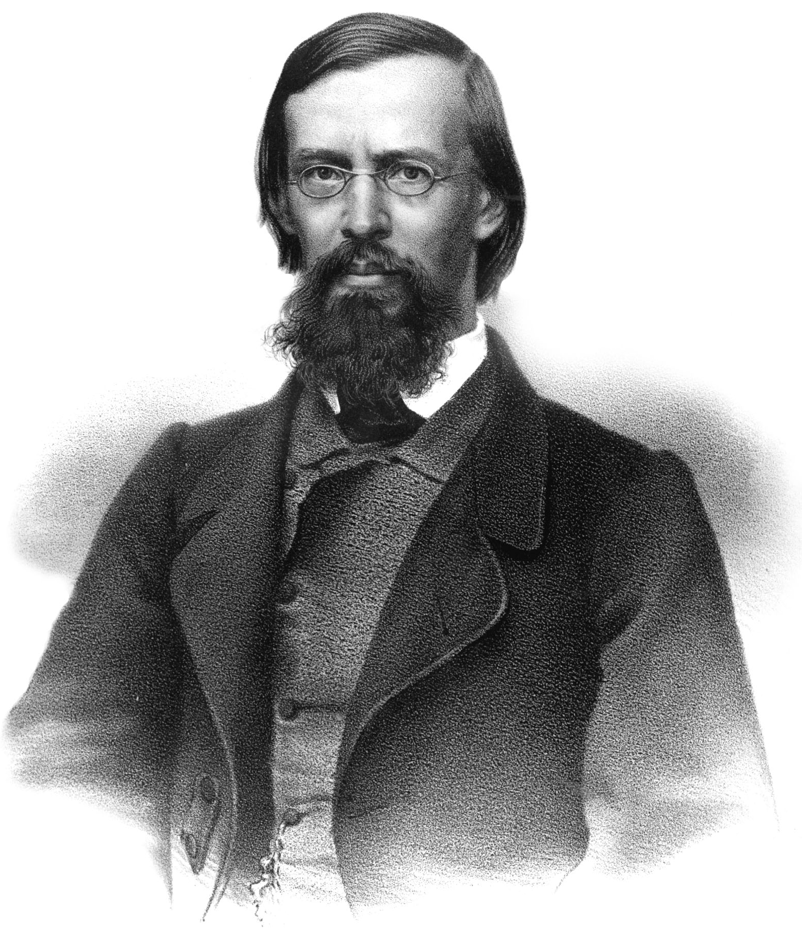 Apollon Maykov